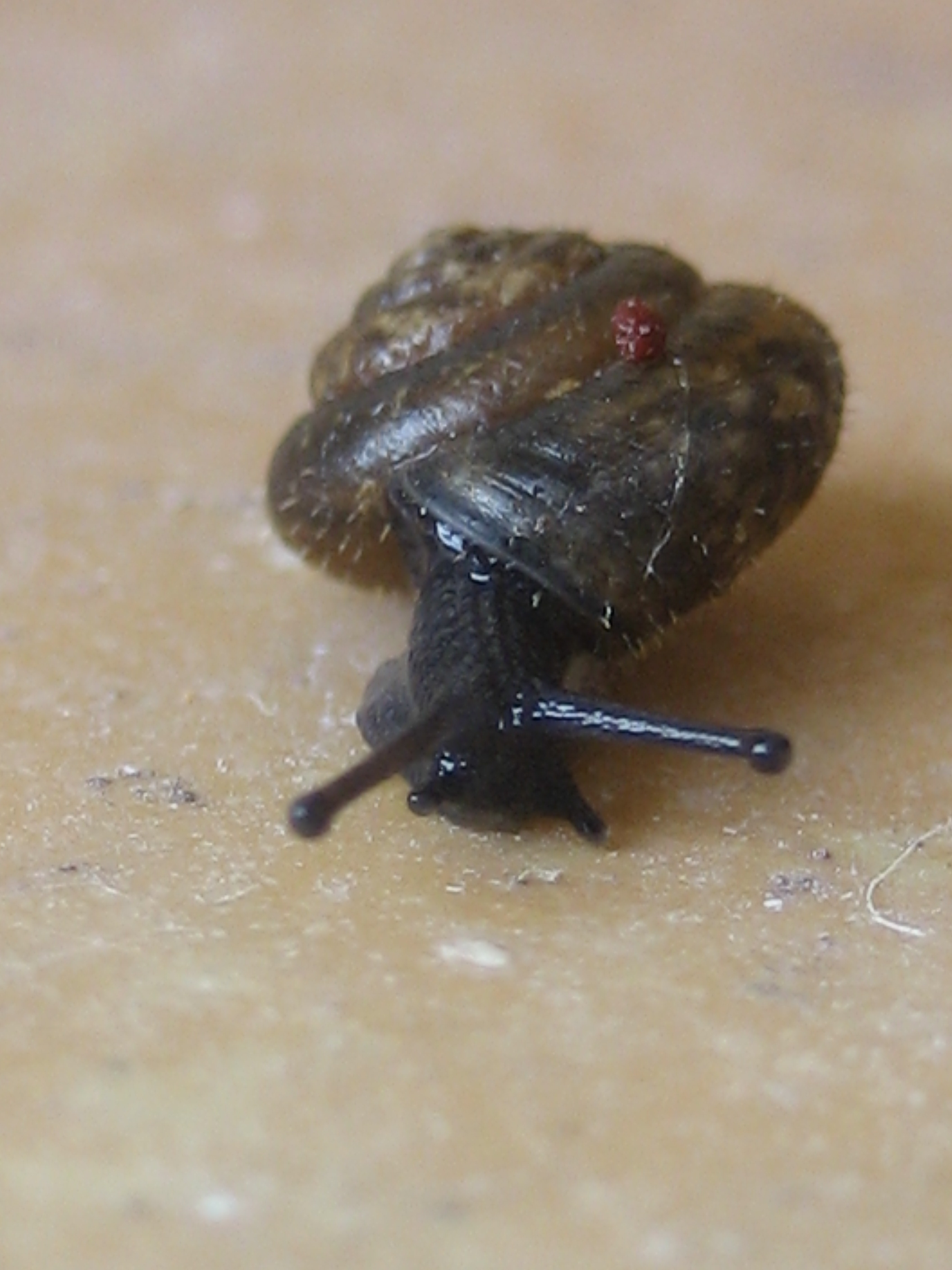 Garden snail. Moscow region. Trochulus hispidus, exactly, determined 04 June 2011 by Francisco Welter-Schultes